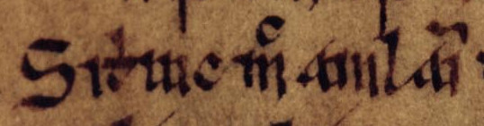 An excerpt from folio 16v of Oxford Bodleian Library MS Rawlinson B 488 (the Annals of Tigernach): "Sitriuic mac Amlaim". The excerpt concerns Sitriuc mac Amlaíb, King of Dublin (died 1042).